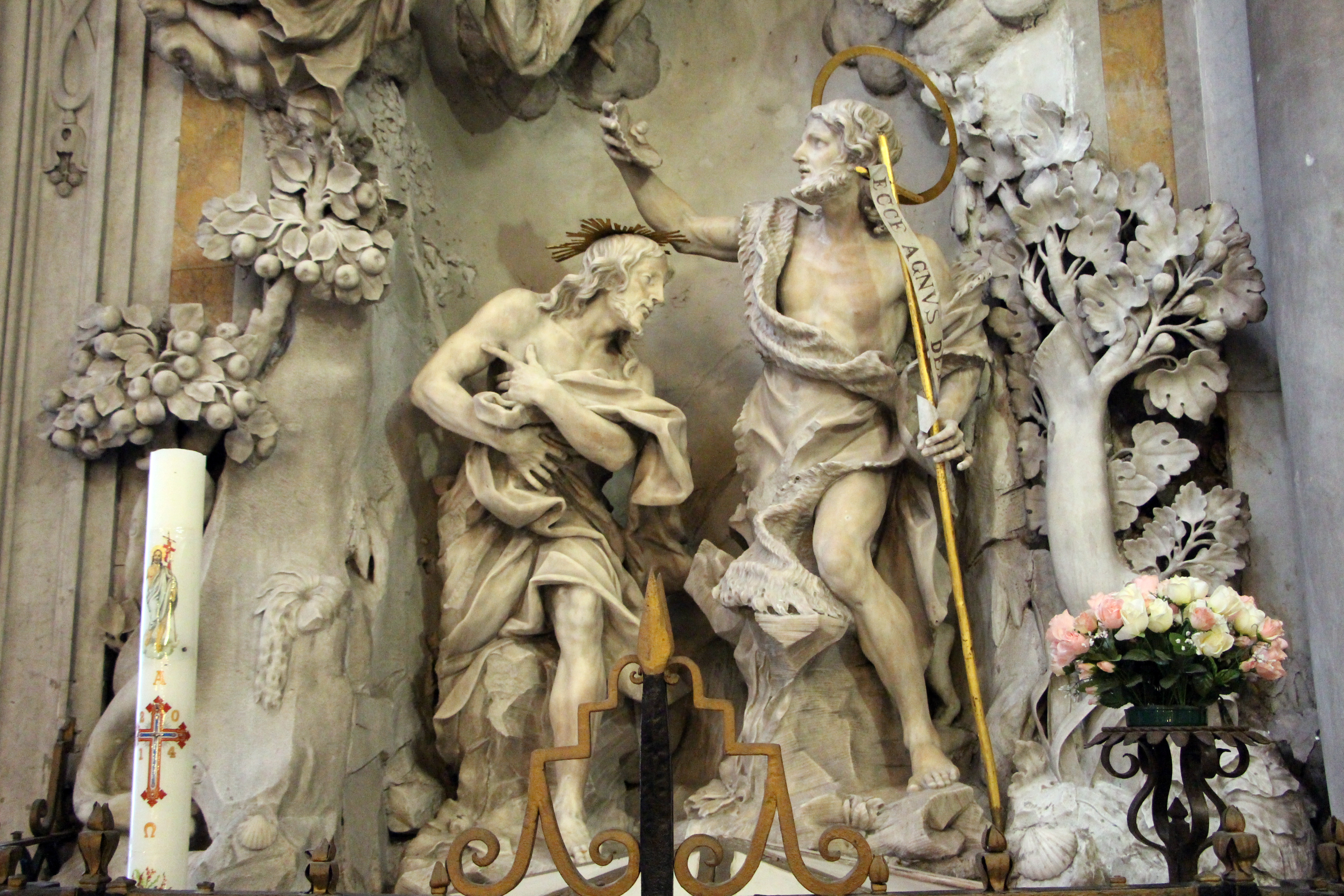 Baptism of Christ by Anton Domenico Parodi - Santa Maria delle Vigne (Genoa, Italy). The making of this document was supported by Wikimedia CH. (Submit your project!) For all the files concerned, please see the category Supported by Wikimedia CH.